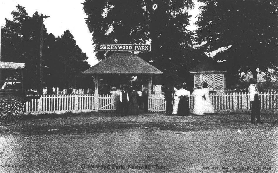 The entrance to Greenwood Park (Tennessee), the first urban park and recreation area established for the African American community in Nashville, Tennessee. The park opened in 1905 and closed in 1949.